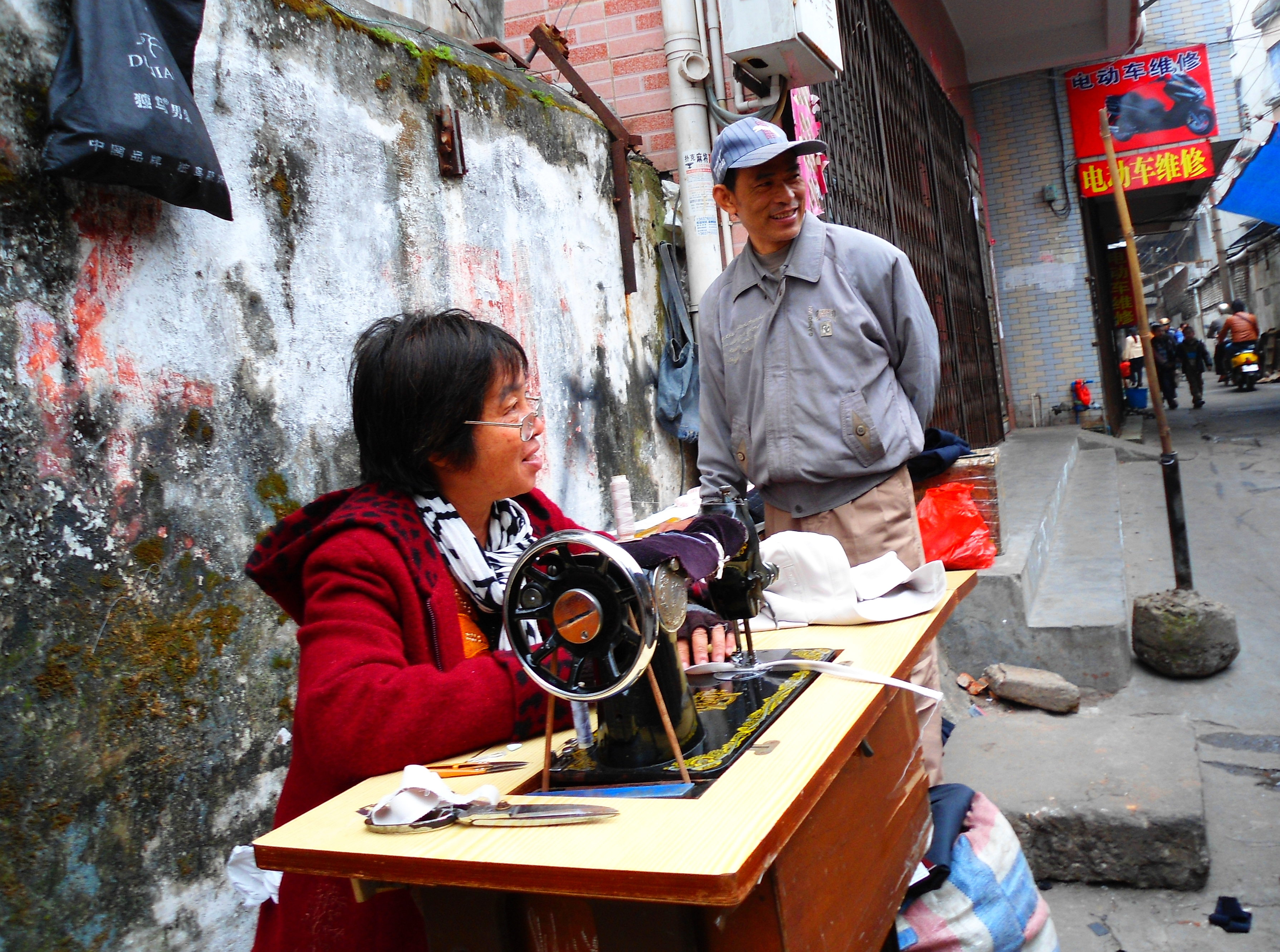 Tailor in Haikou City, Hainan Province, China.